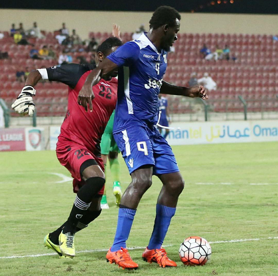 Mamadou Soro Nanga in action for Al-Nasr Club in a match against Al-Oruba SC. Al-Saada Sports Stadium, Salalah, Oman 18 October 2015 Photographer email id